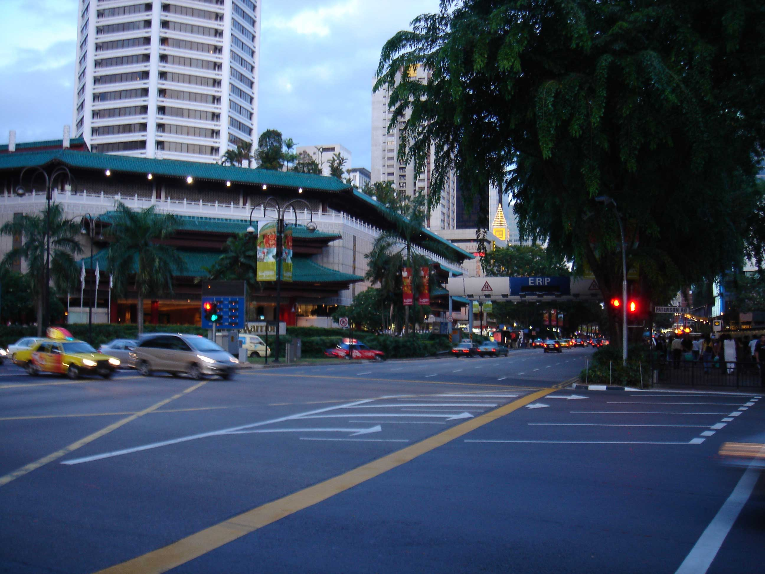 A view from the Wheelock Place corner of the Orchard Road/Scotts Road intersection, looking down Orchard Road past Tangs Plaza towards the ERP gantry. Orchard Road is the primary shopping street of Singapore, frequented by both locals and tourists.